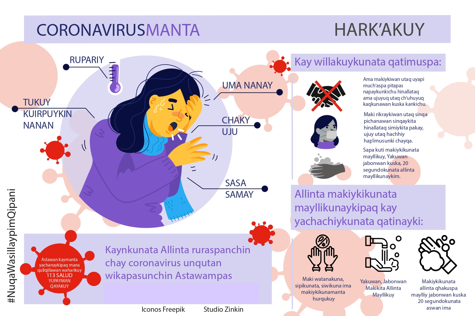 Prevention leaflet in Quechua